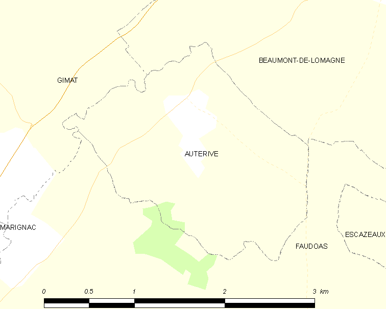 Map of French municipality Auterive